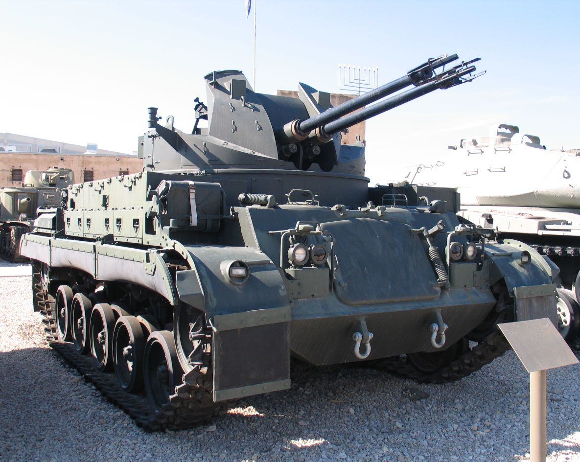 Description: M42 Duster sp air defence cannon in Yad la-Shiryon Museum, Israel. 2005. Source: Photo by me, User:Bukvoed.